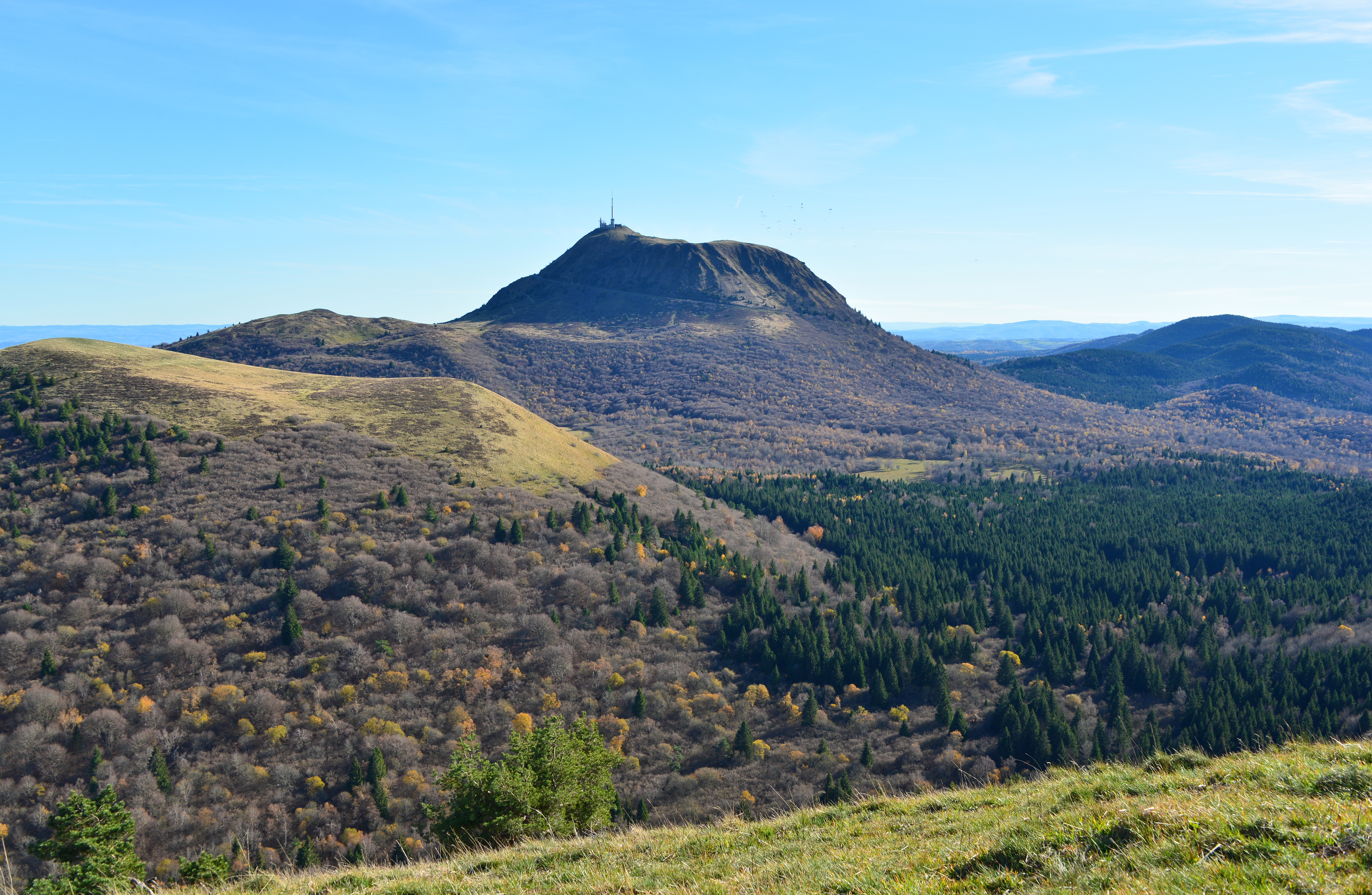 Puy de Dôme during autumn (Auvergne, France).